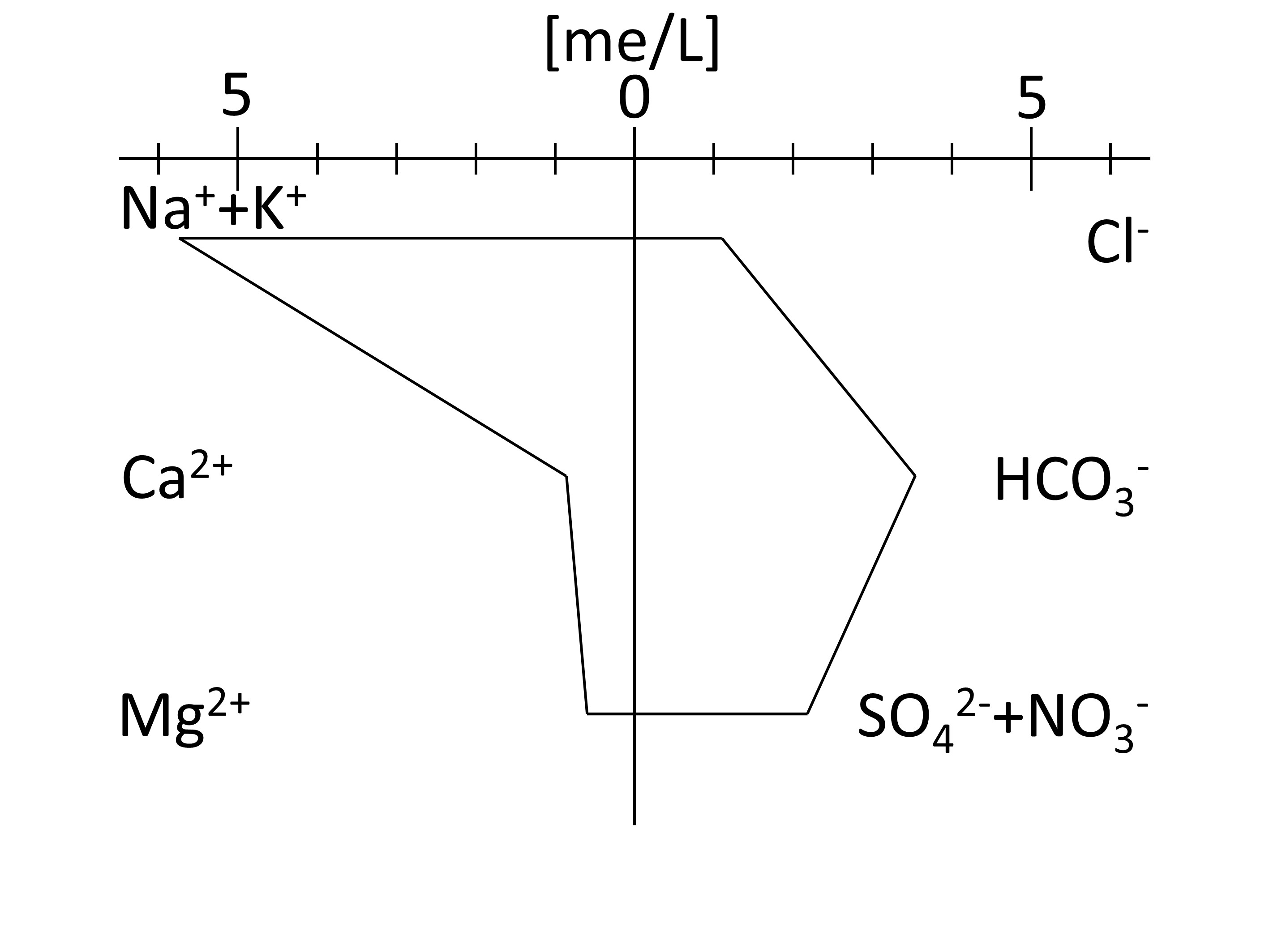 This is a figure to express water quality. Equivalent concentration [me/L] of cations are shown on the left side, and that of anions are shown on the right side. The shape and size of this figure express water quality.